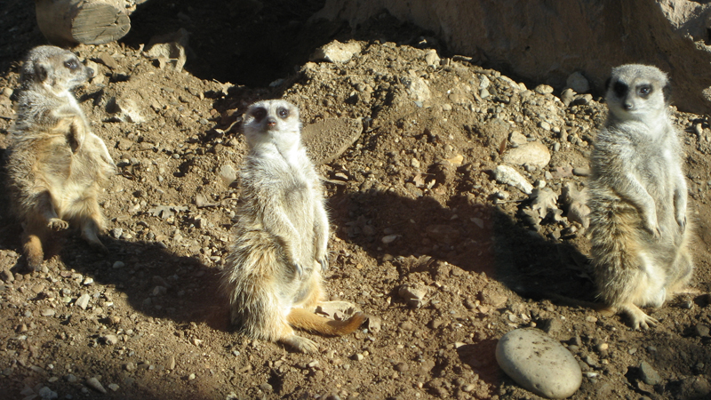 Two meerkats at Charles Paddock Zoo, Atascadero, California, USA.